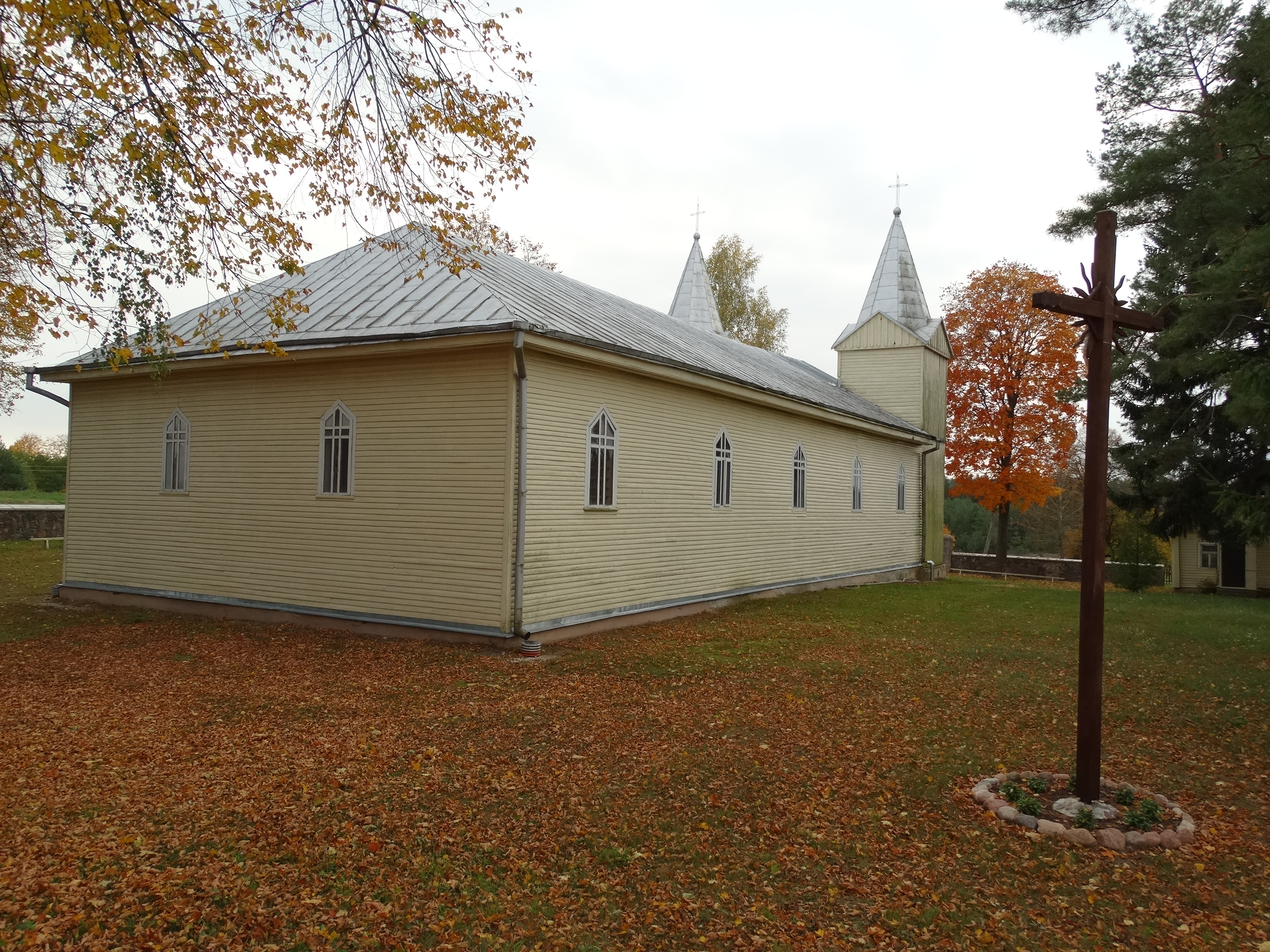 Šlavantai Catholic Church, Lazdijai district, Lithuania